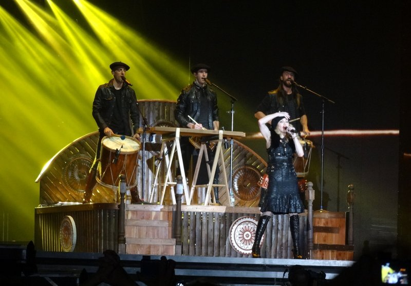 Madonna live at the o2 World, Berlin on 30 June 2012 during her MDNA Tour.